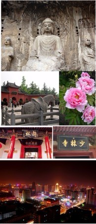 Luoyang scenery and places of interest: longmen grottoes, the white horse temple, peony, GuanLin temple, shaolin temple, luoyang at night